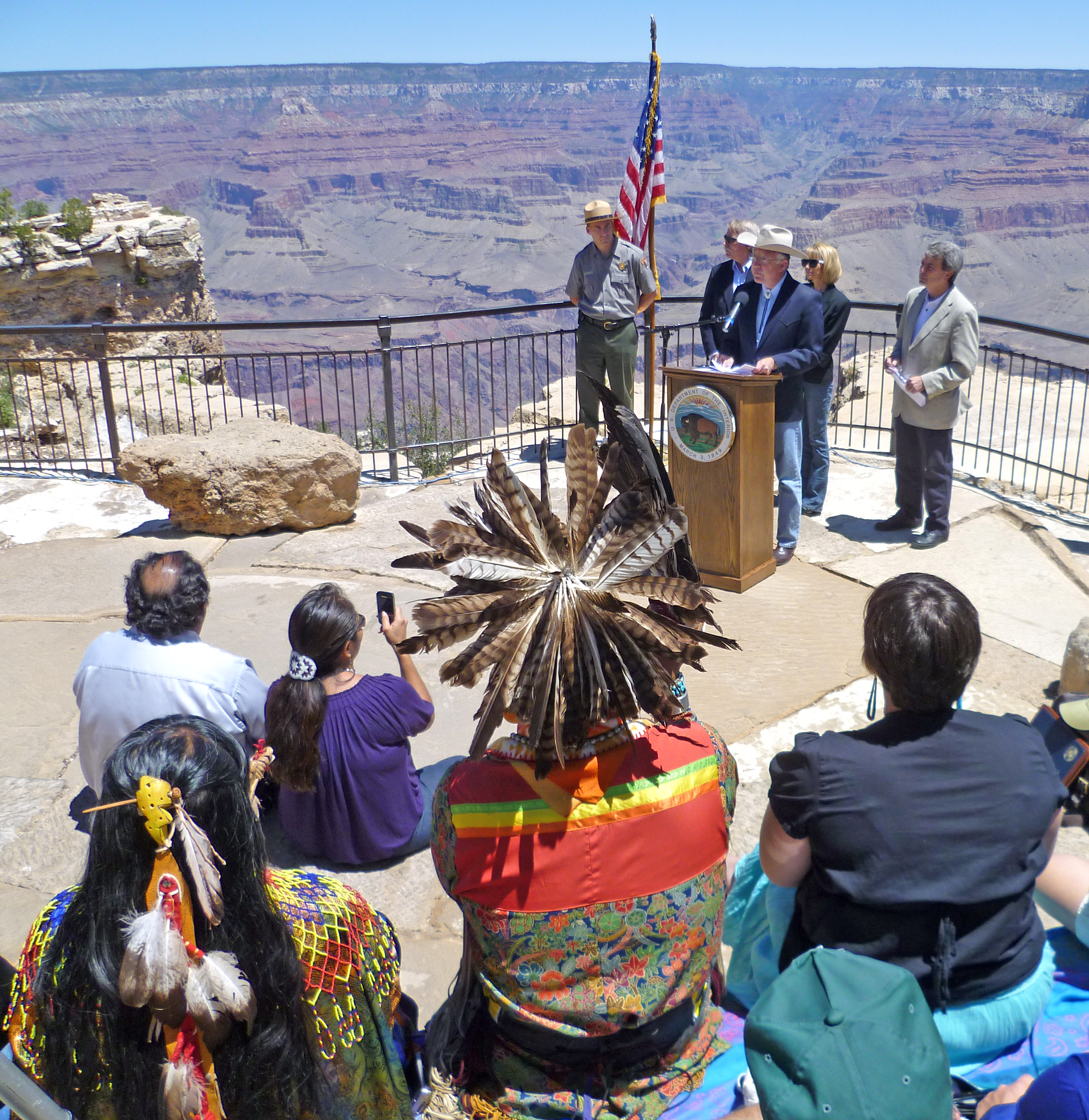 Secretary of the Interior Ken Salazar making announcement at Mather Point Amphitheater in Grand Canyon National Park. He was joined by BLM Director Bob Abbey, National Park Service Director Jon Jarvis, and US Geological Survey Director Marcia McNutt.